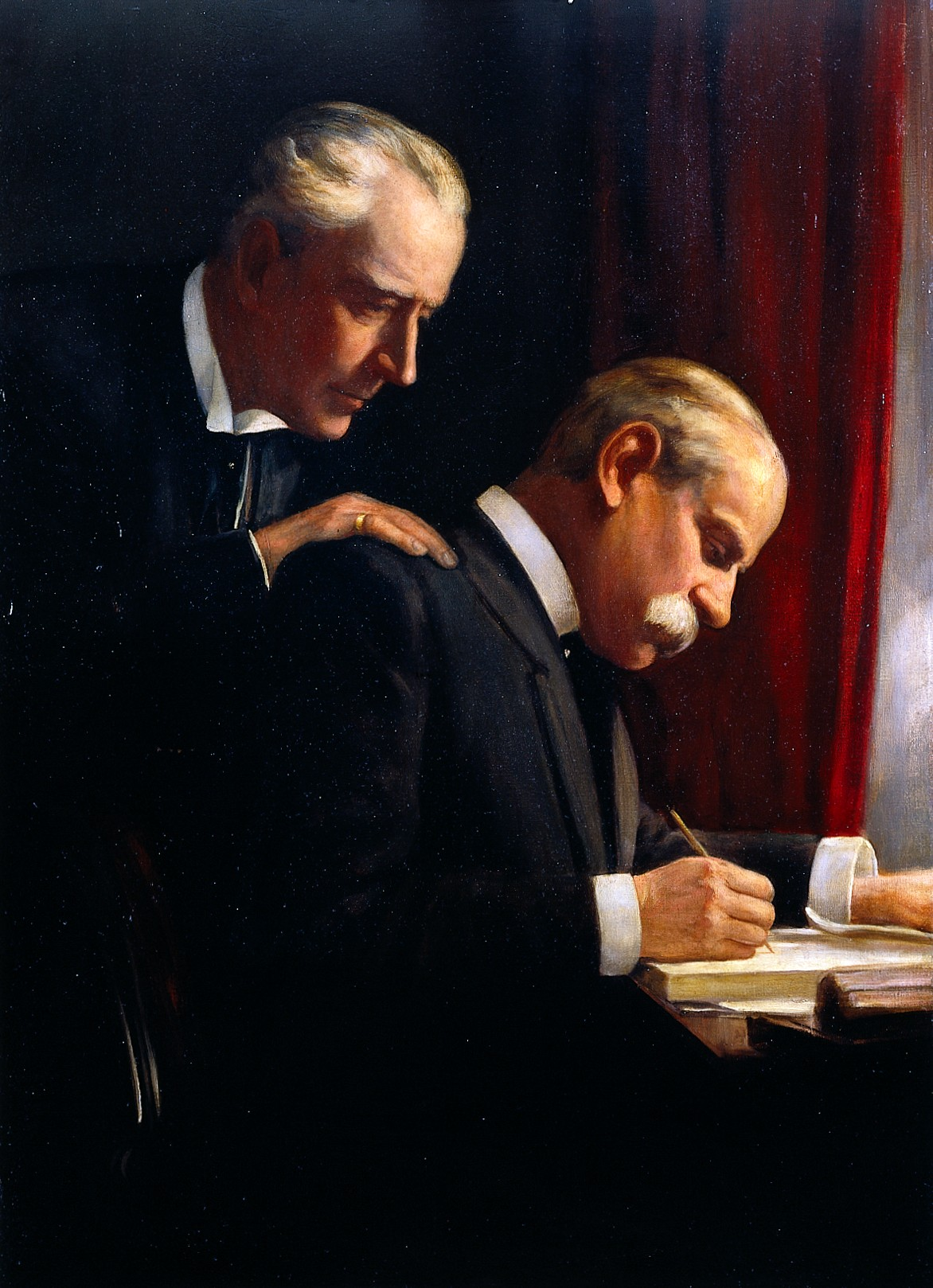 Sir Francis Laking and Sir Frederick Treves. Oil painting by Harry Herman Salomon after a photograph. Iconographic Collections Keywords: Francis Henry Laking; Frederick Treves; Harry Herman Salomon